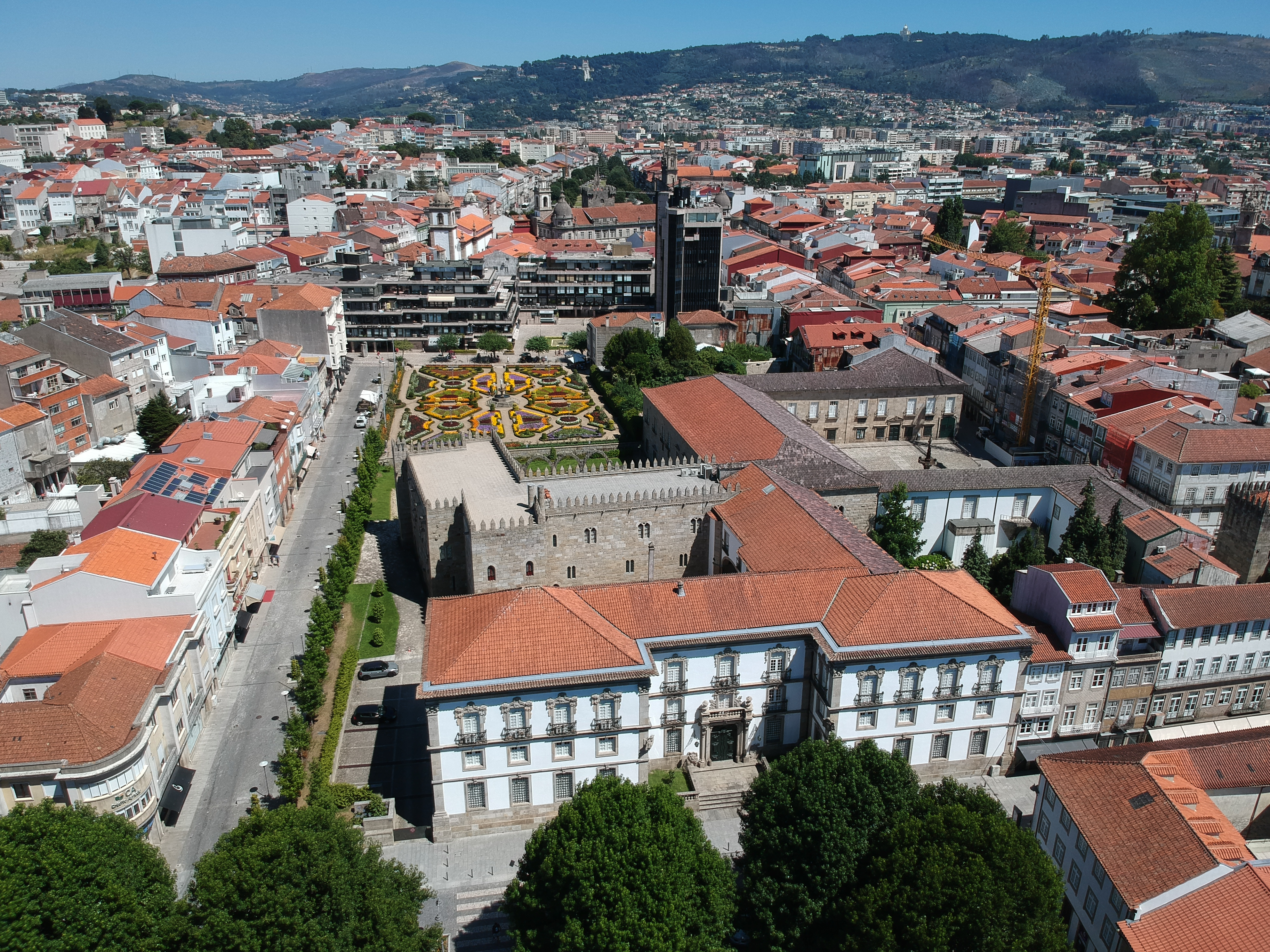 Aerial photograph of Braga, Portugal.